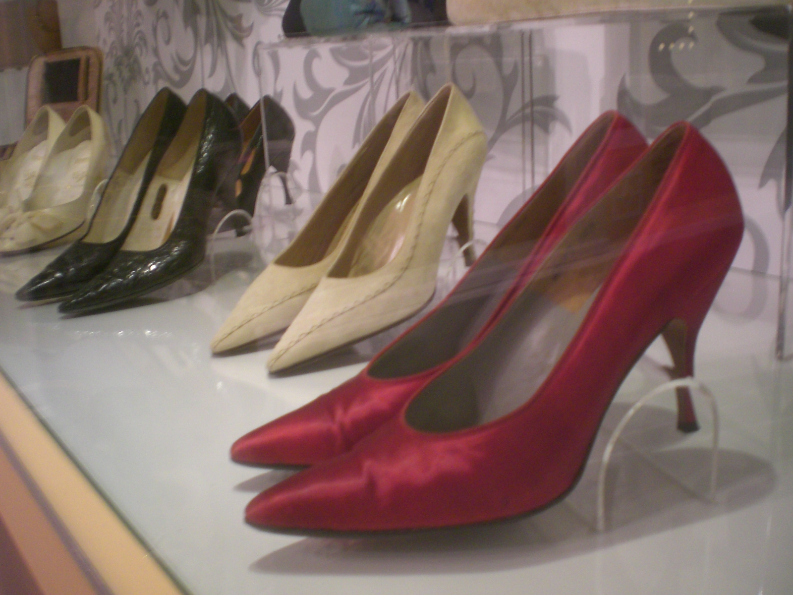 HK Film Archive showcases legendary superstar Lin Dai = 林黛, Lin Dai 在香港電影資料館